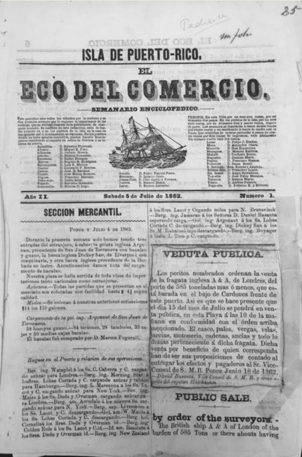 Periódico El Eco del Comercio, Ponce, Puerto Rico, edicion de 5 de Julio de 1852